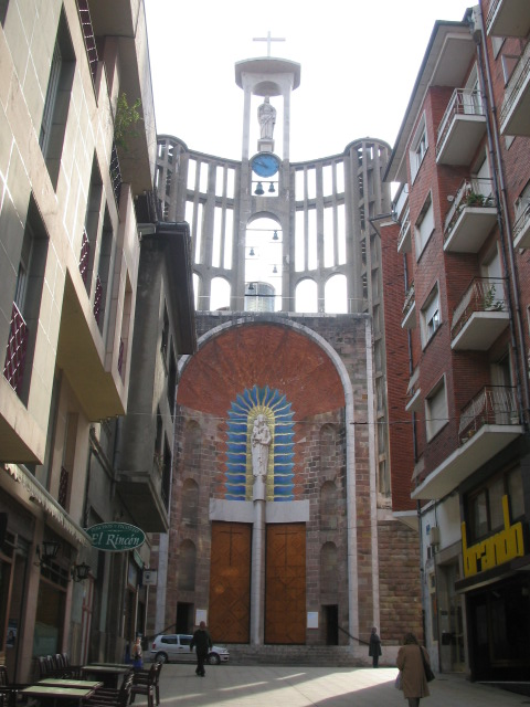 Church of the Virgen Grande (Big Virgin), Torrelavega, Cantabria.